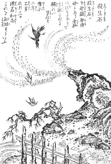 Sesshō-seki (殺生石, the poisonous "killing stones" which Tamamo-no-Mae transformed into) from the Konjaku Hyakki Shūi (今昔百鬼拾遺)